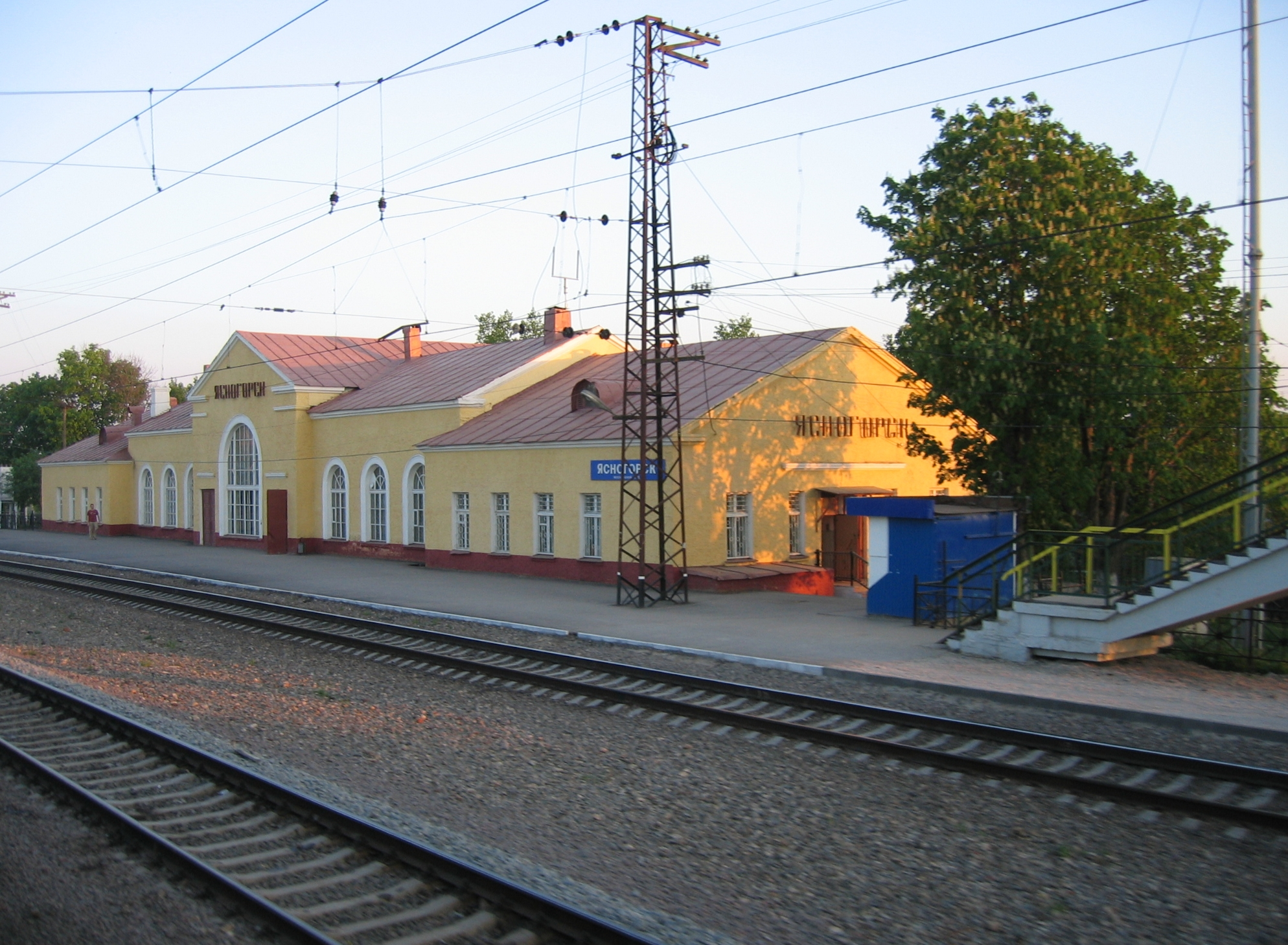 Yasnogorsk railway station, Tula Oblast